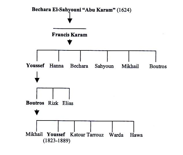 Karam Family Tree Since Abu Karam